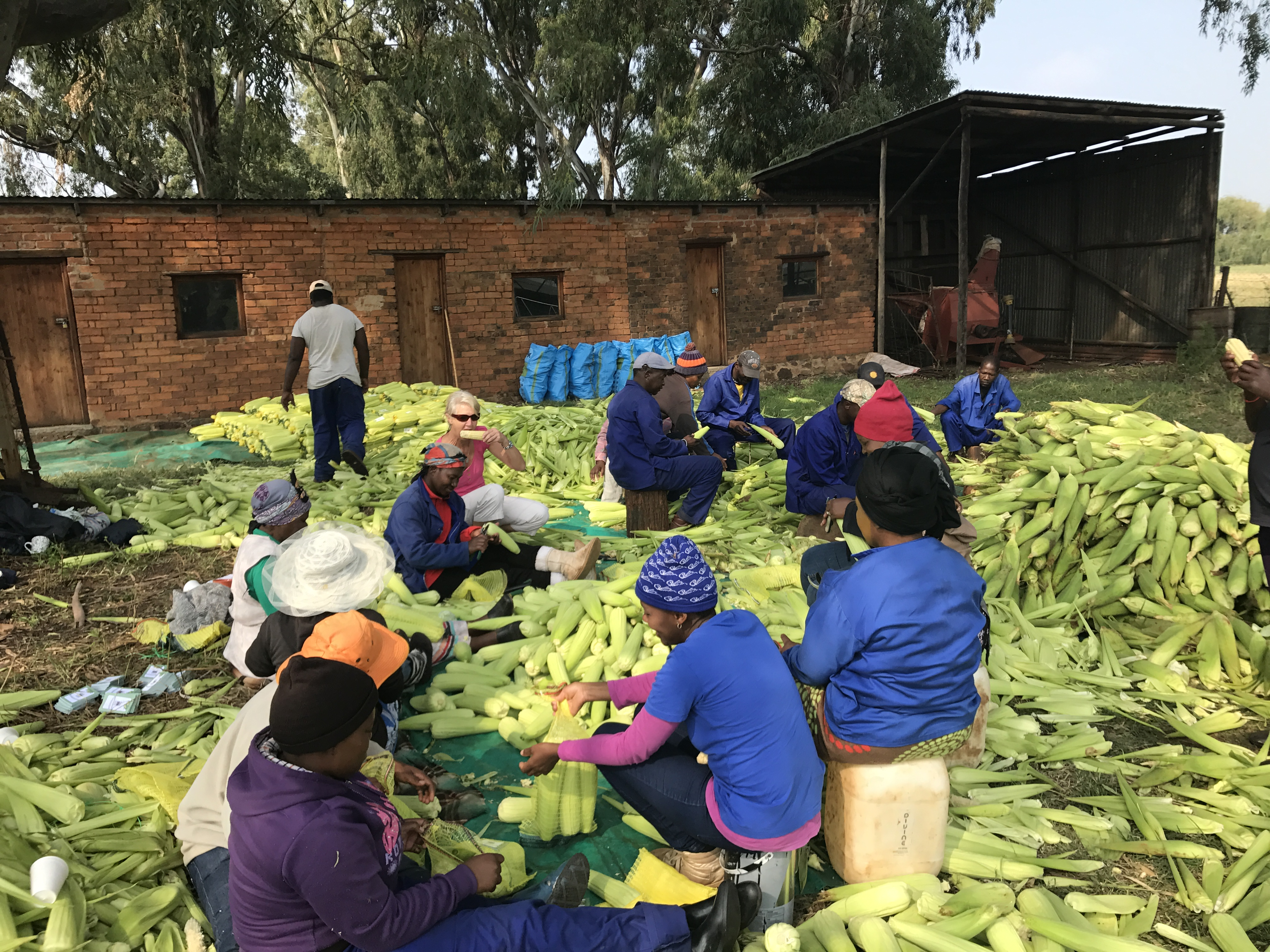 While they clean and pack the cobs, a pot of mealies are cooking on a fire for all to enjoy. This is an image of "African people at work" from South Africa